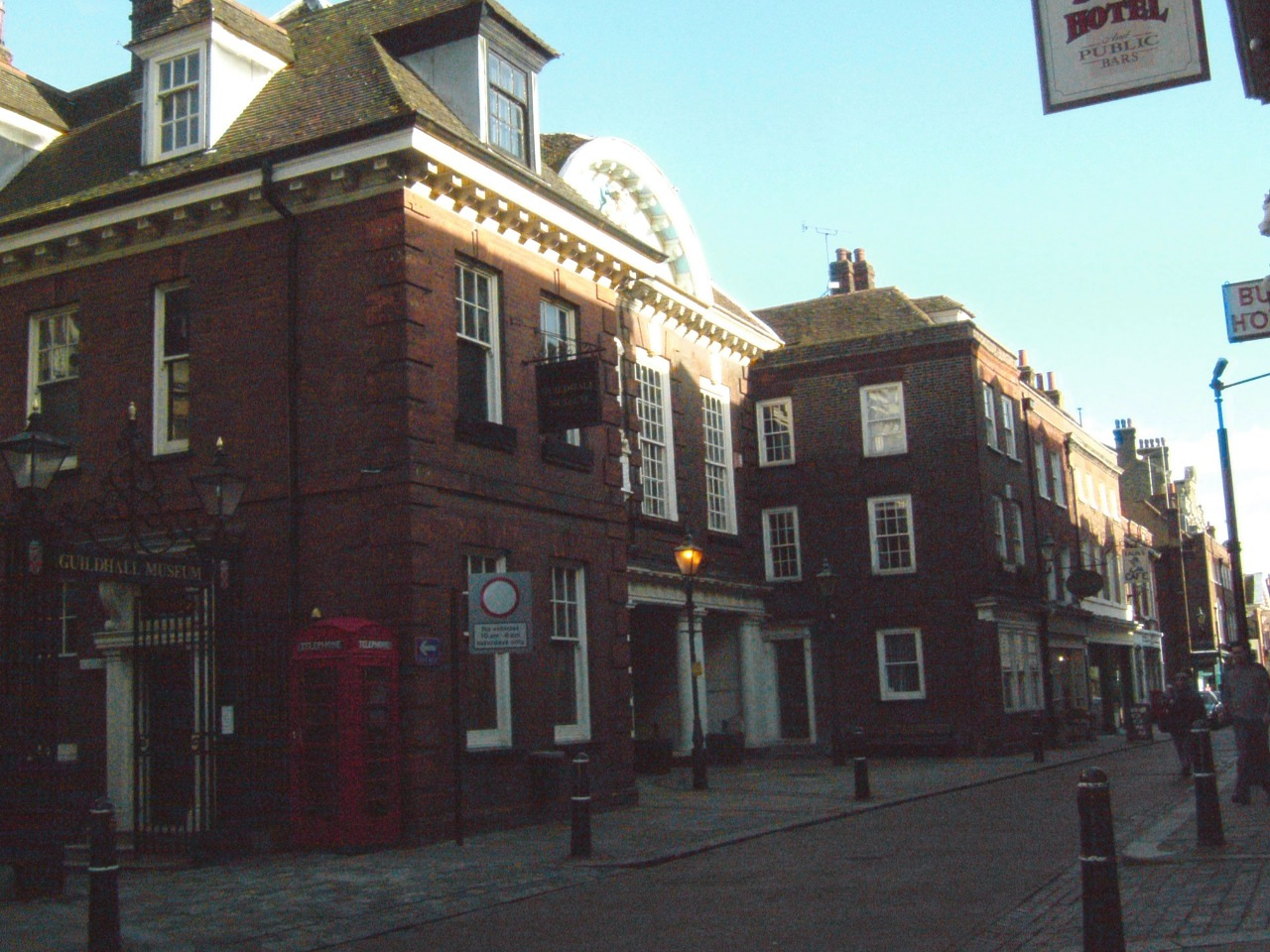 Attrib: Clem Rutter, Rochester.